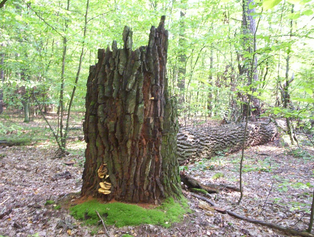 Nature reserve Babsk, Poland.